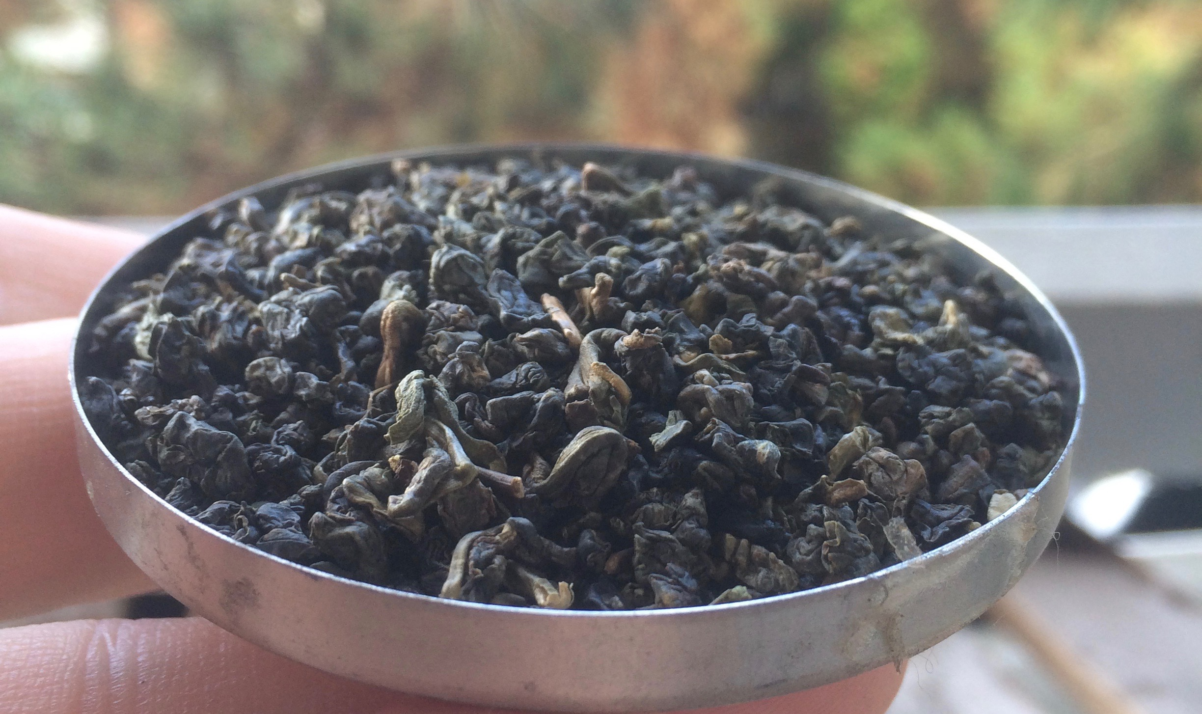 Loose Dong Ding tea from Nantou, Taiwan.